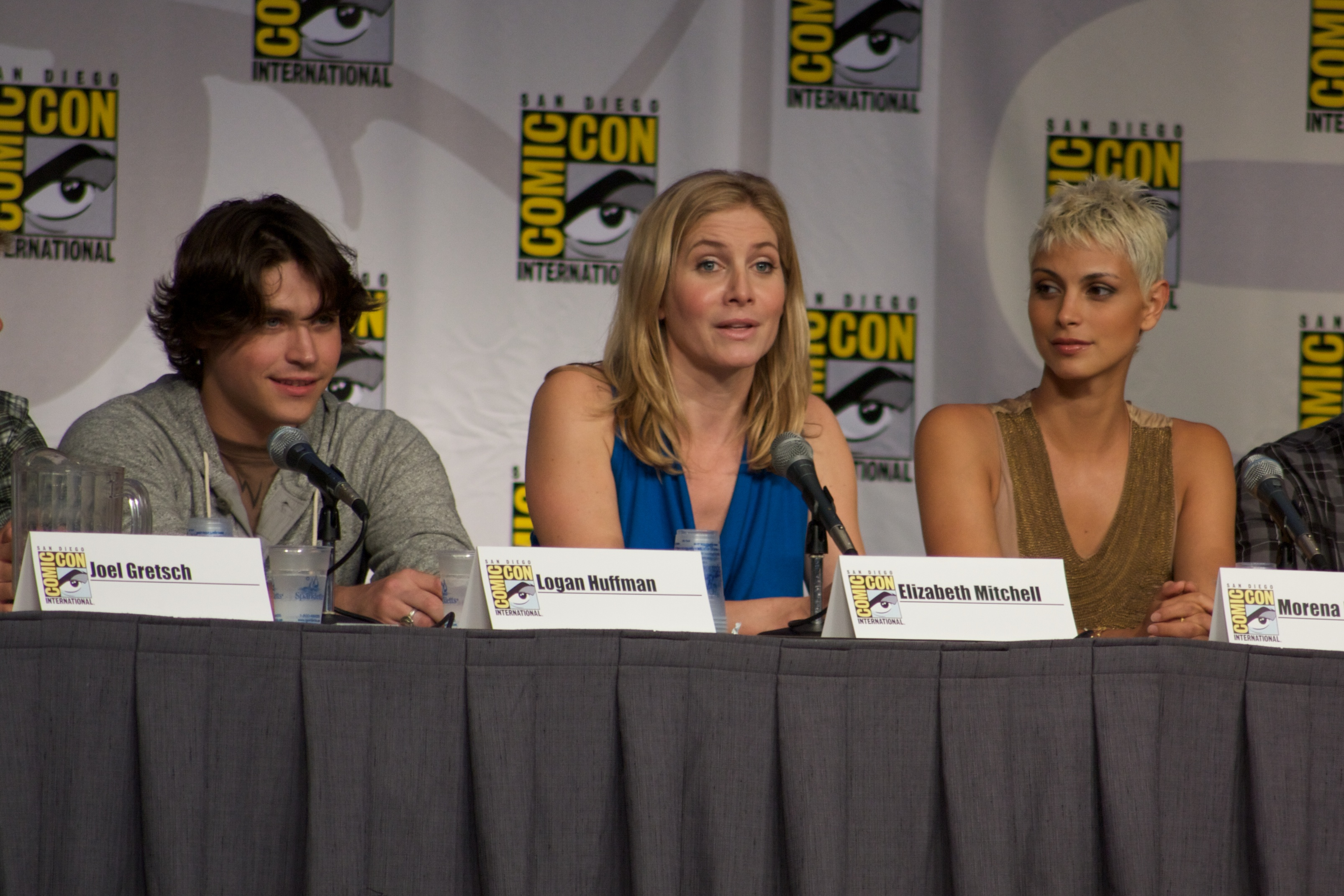 "V" Panel. Actors Logan Huffman, Elizabeth Mitchell, and Morena Baccarin at San Diego 2010 Comic-Con International.